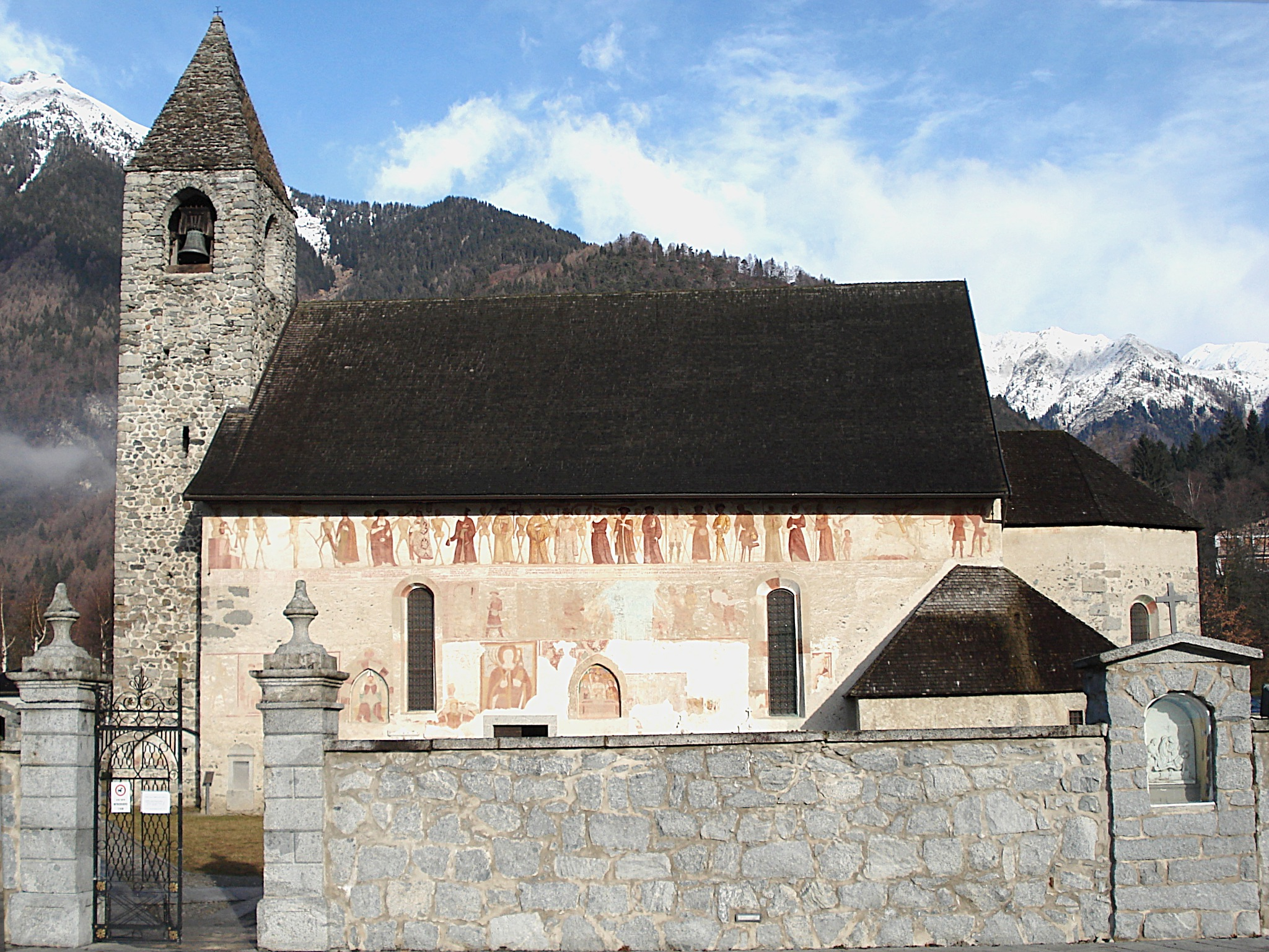 Saint Stefan church, Pinzolo, Province of Trento